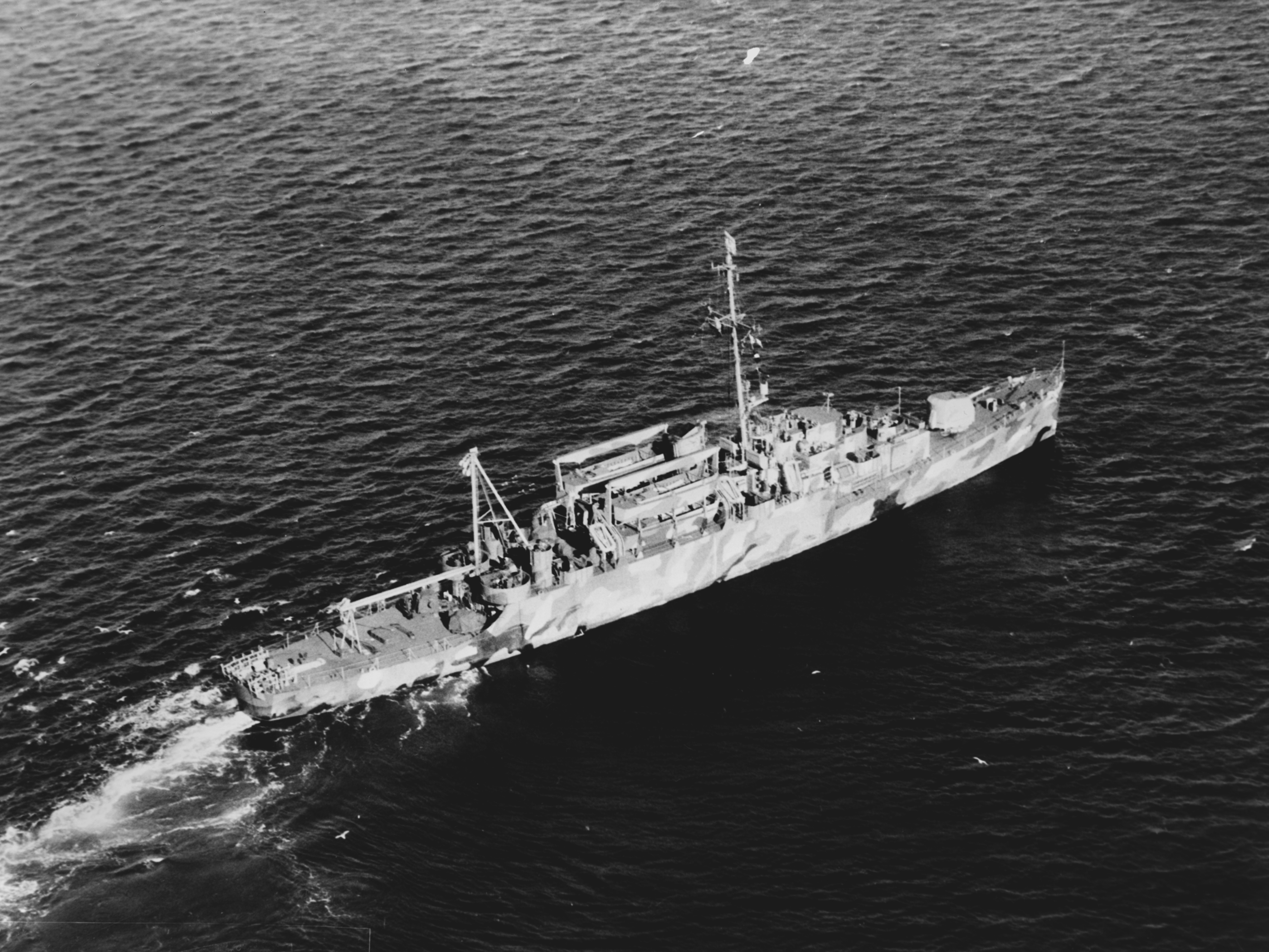 The U.S. Navy high-speed transport USS Raymon W. Herndon (APD-121), circa in late 1944.